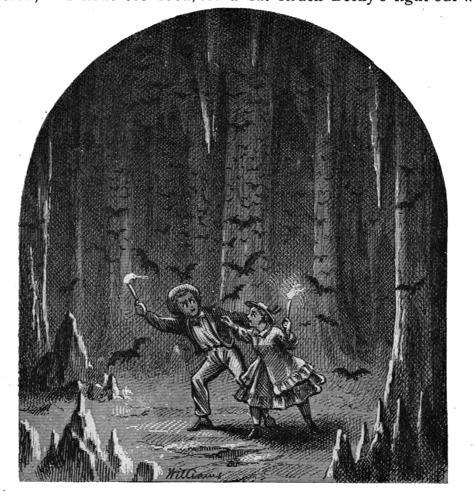 Scan of illustration from the book Adventures of Tom Sawyer, written by Mark Twain & illustrated by True Williams (Trueman W. Williams).